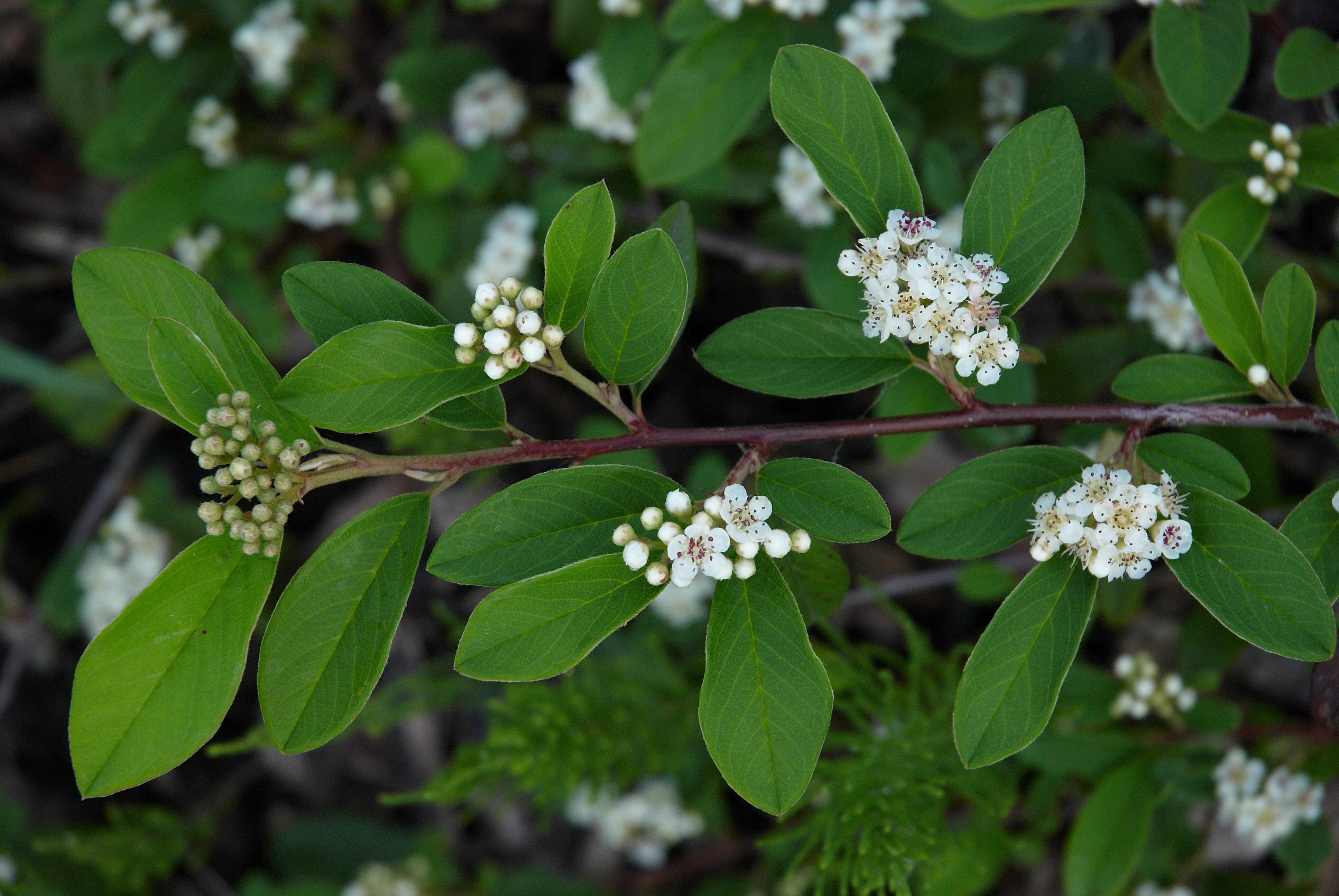 Cotoneaster × watereri 'Pendulus' Other photos of the same plant